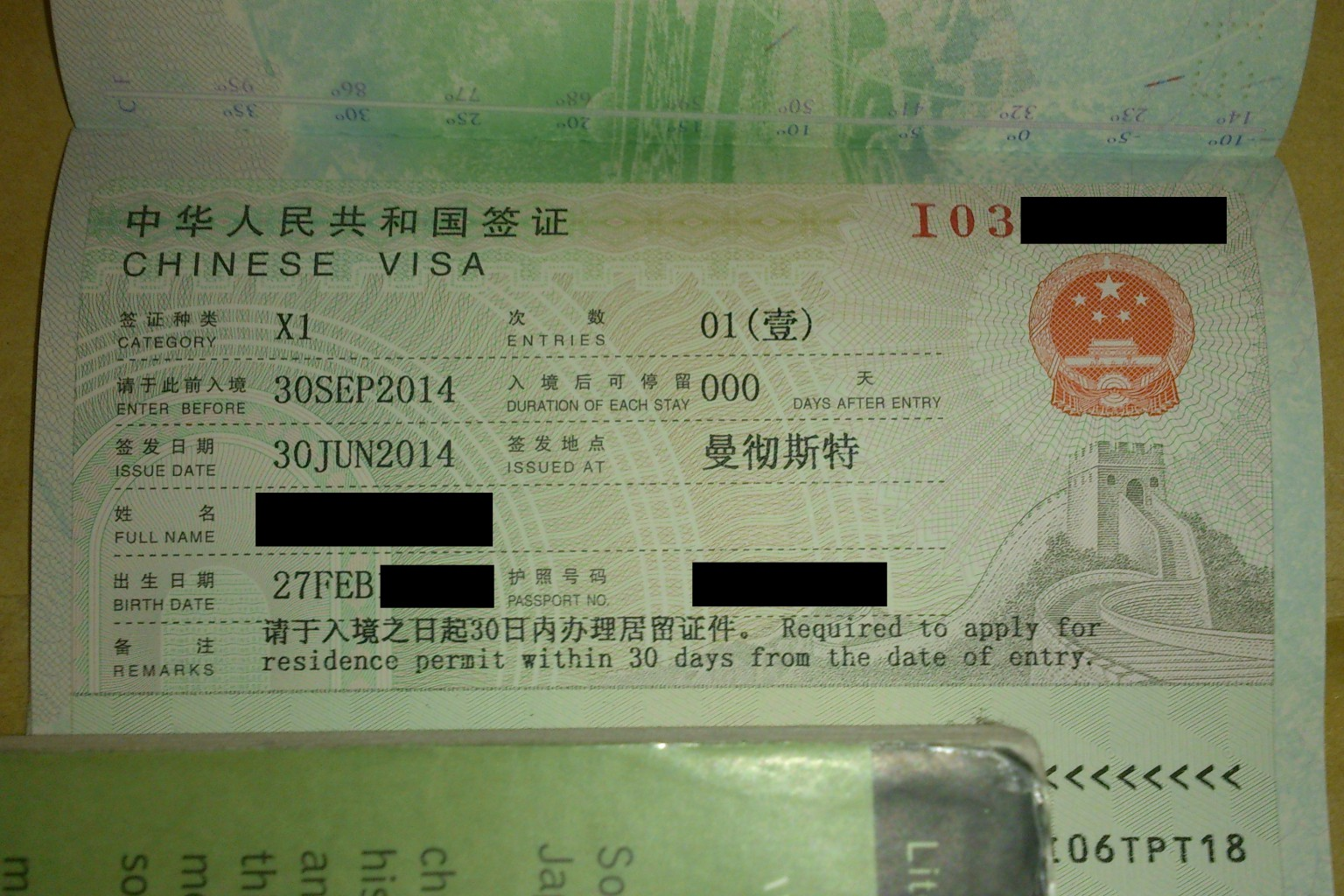 A long-term (more than 6 months) student visa for the People's Republic of China. This one was issued in Manchester, England.中文（中国大陆）: 一个在英国发出的外国留学生来华长期学习签证（六个月以上）